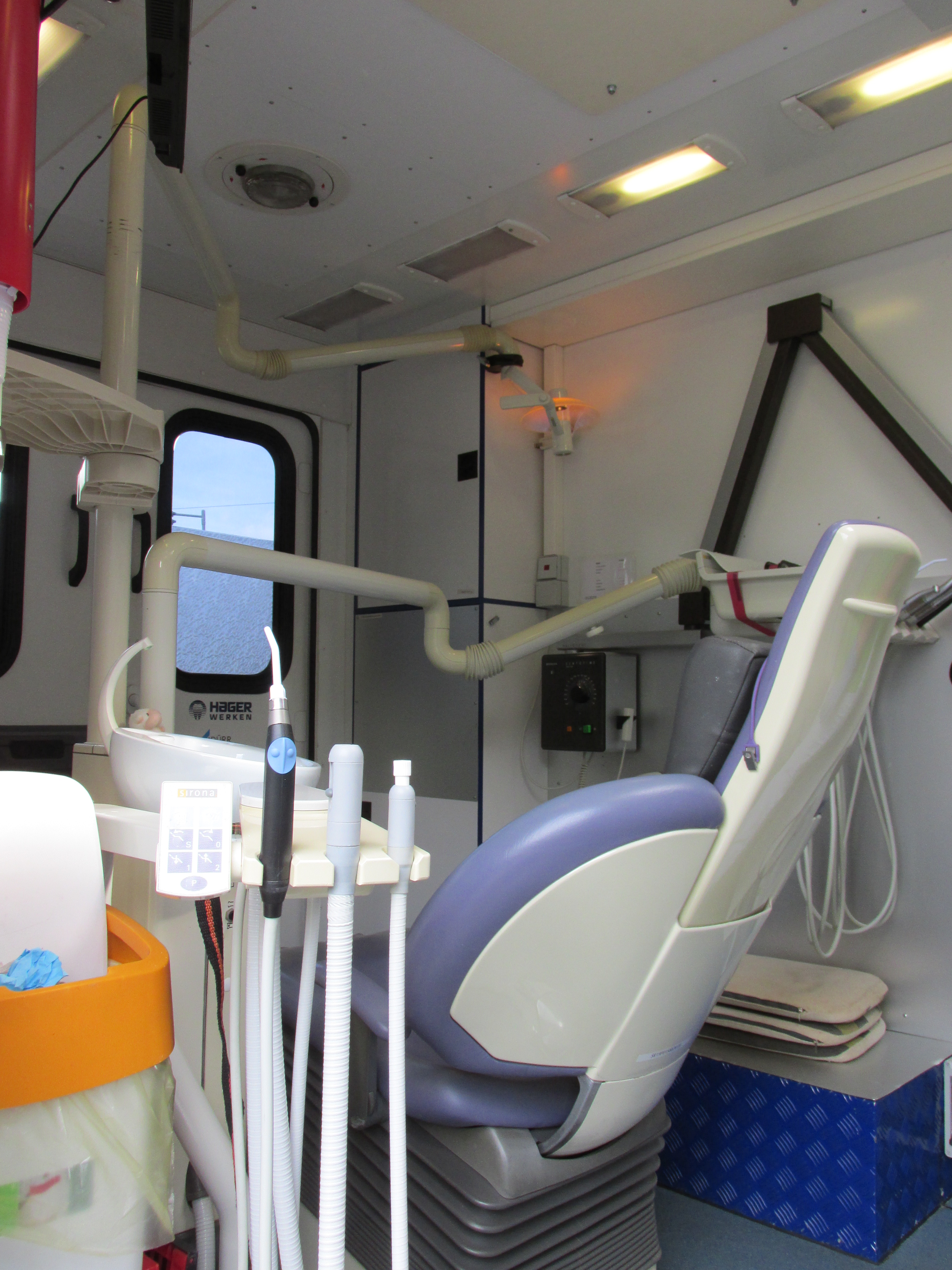 View into mobile dental practice, Hanover, Germany check usage